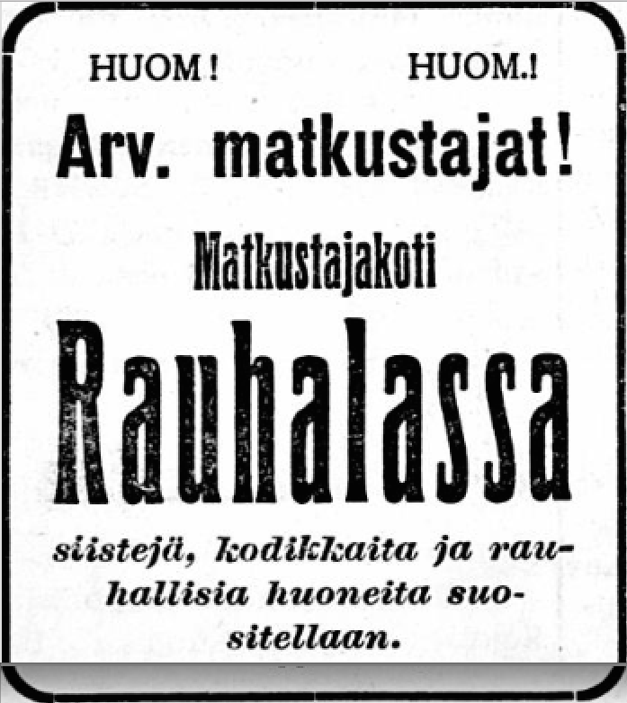 Old ad of PAX INN